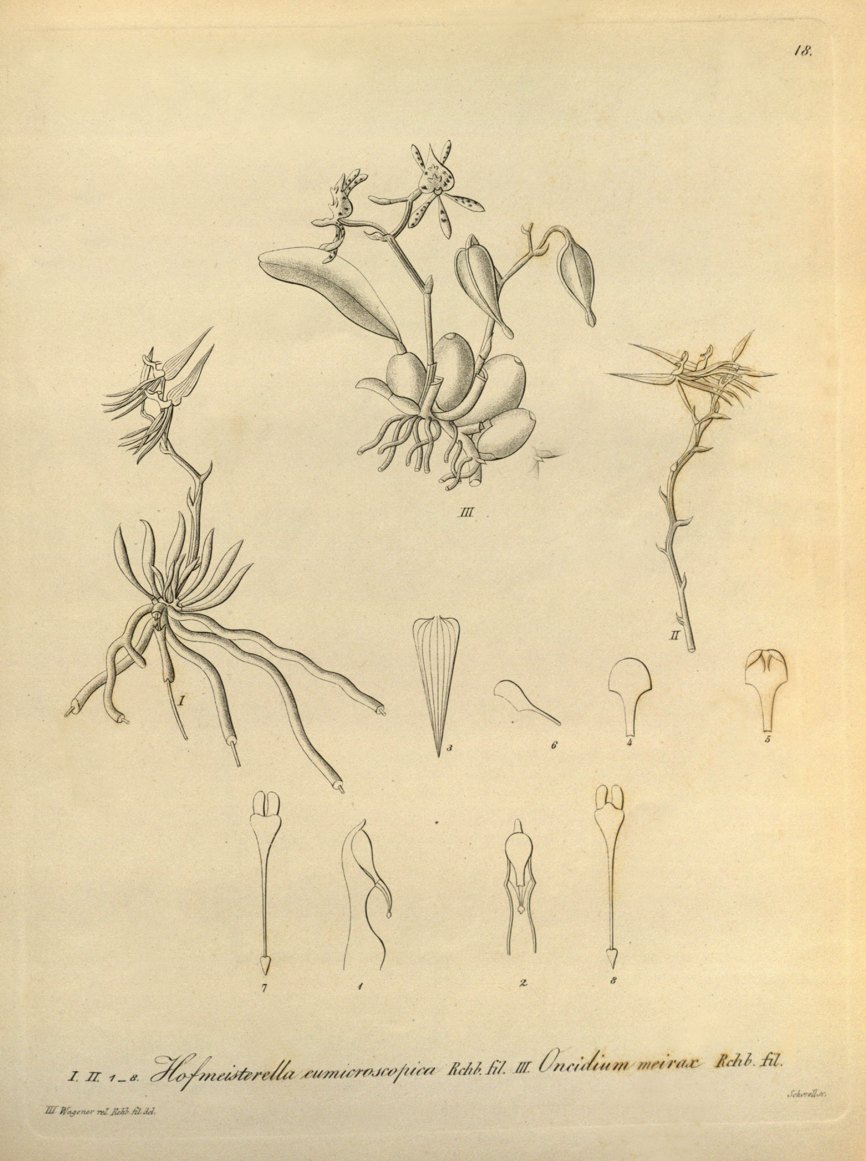 Illustration of: I, II Hofmeisterella eumicroscopica III Cyrtochilum meirax (as syn. Oncidium meirax)